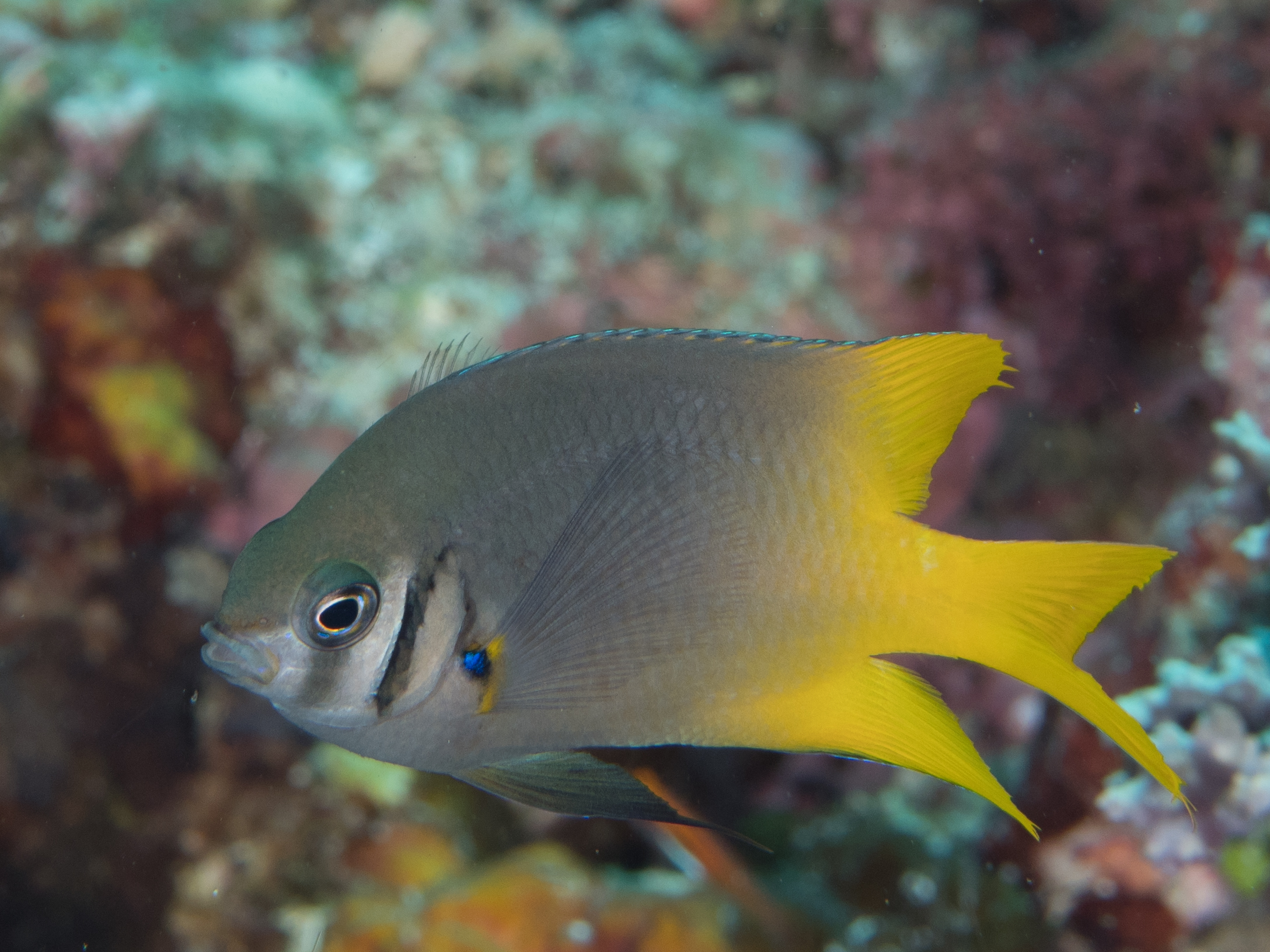 Lembeh, Indonesia - Scarface damsel (Neoglyphidodon nigroris)